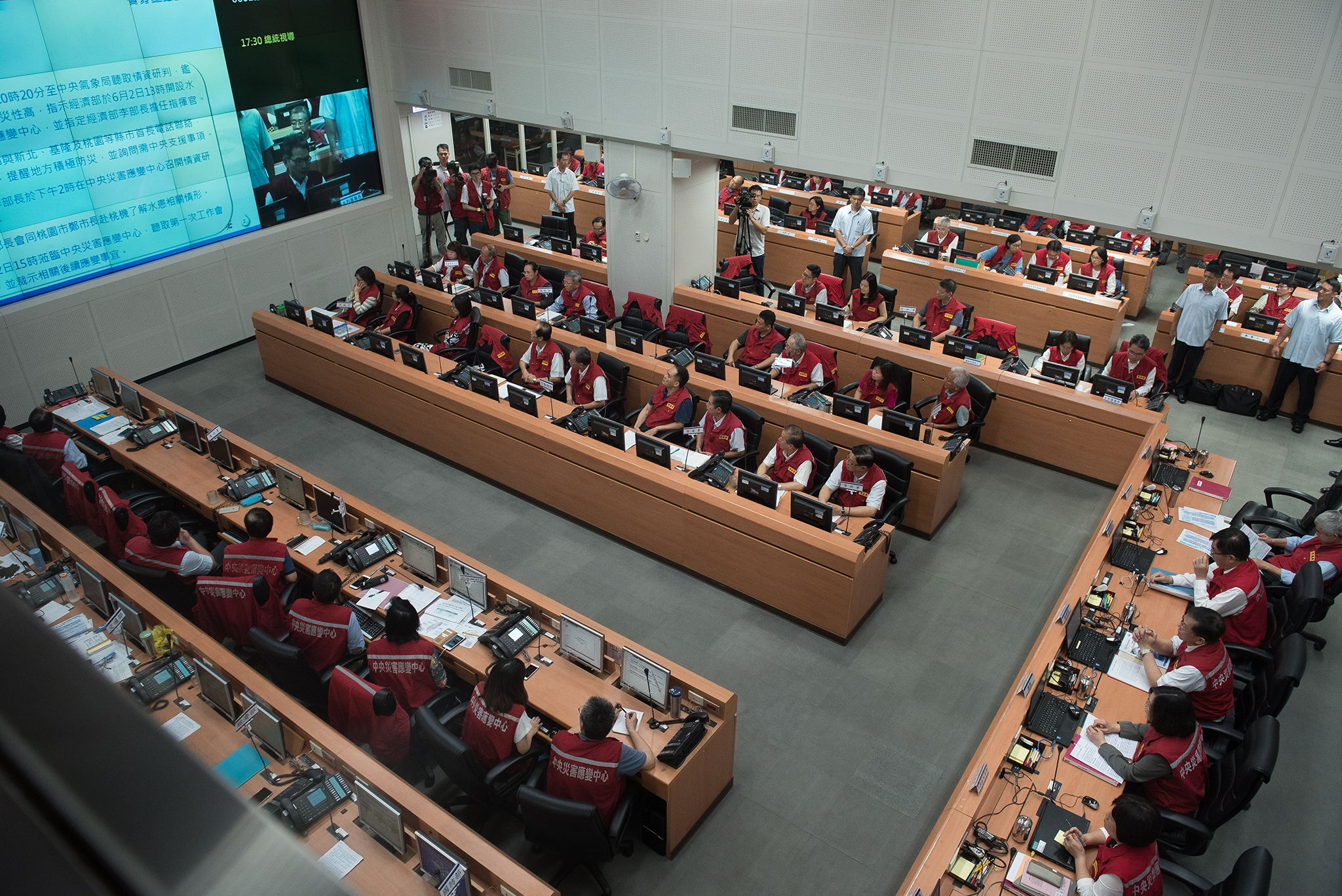 授權方式及範圍：中華民國總統府│政府網站資料開放宣告 Authorization Method & Scope: Office of the President, Republic of China (Taiwan) | Government Website Open Information Announcement